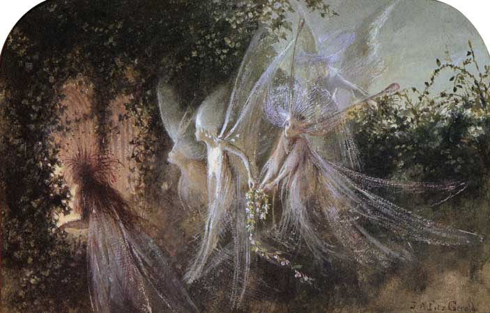 "Fairies Looking Through A Gothic Arch"